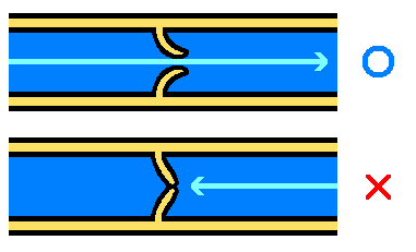 Schematic representation of venous valve. 静脈弁の概念図。